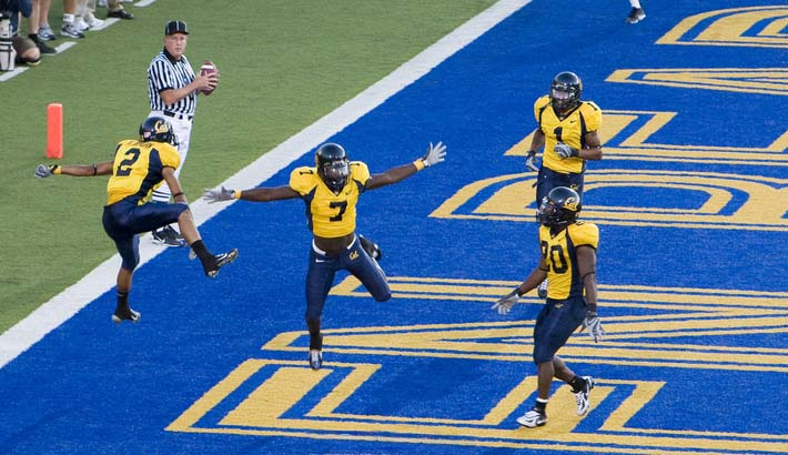 2007 California Golden Bear Football Wide Receivers celebrate touchdown. I own the copyright to th image and I release its use.